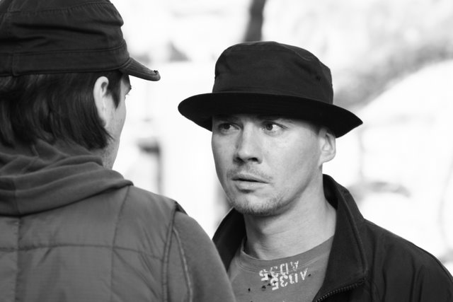 lombard